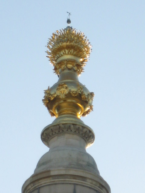 The gilded top of the Monument. See 1111964.